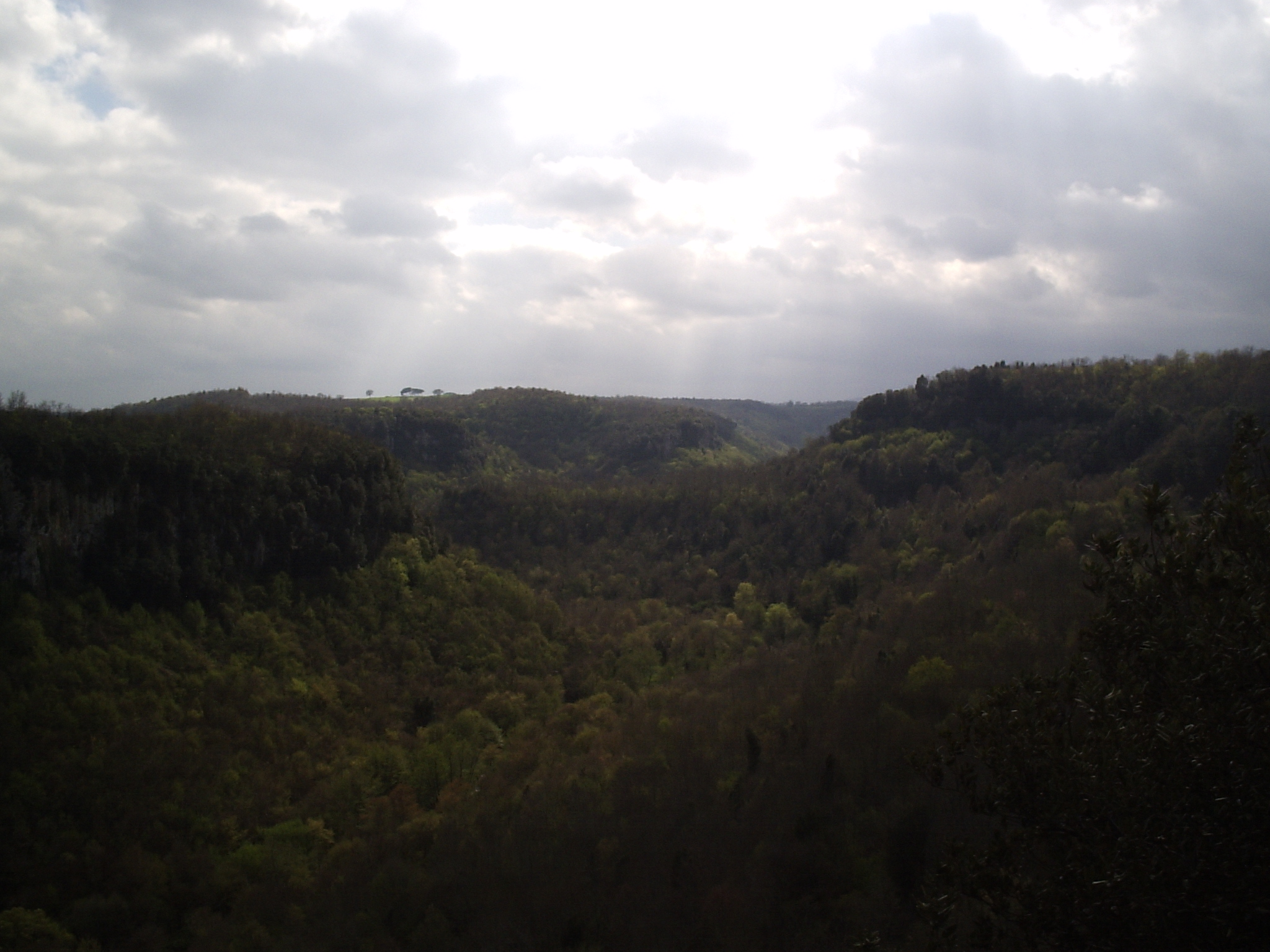 the "Forra" near the Ischi castle